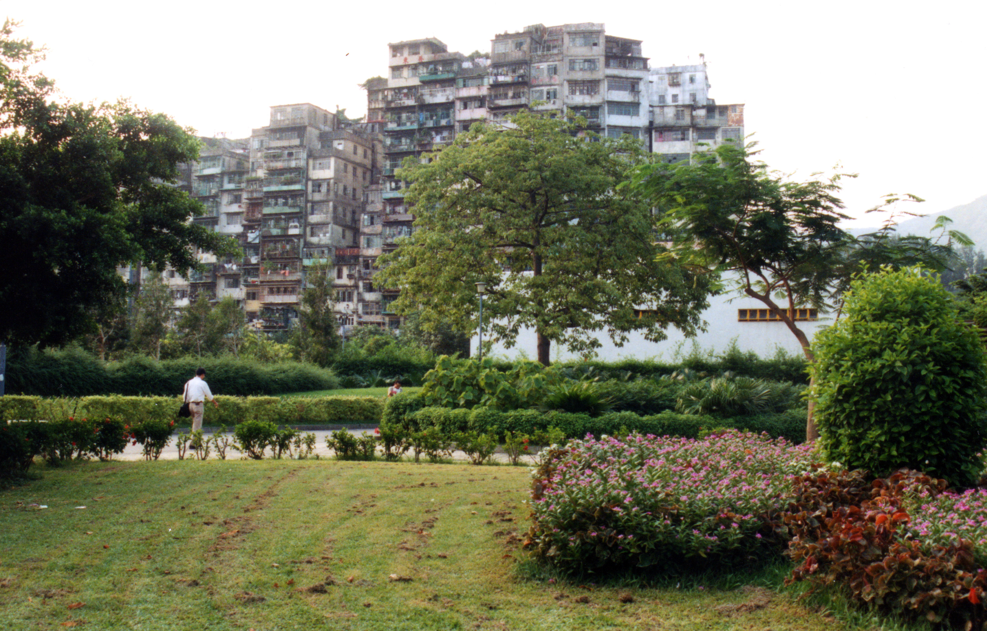 Kowloon Walled City - Hong Kong - this was shortly before they demolished the place and replaced it with quite a nice park